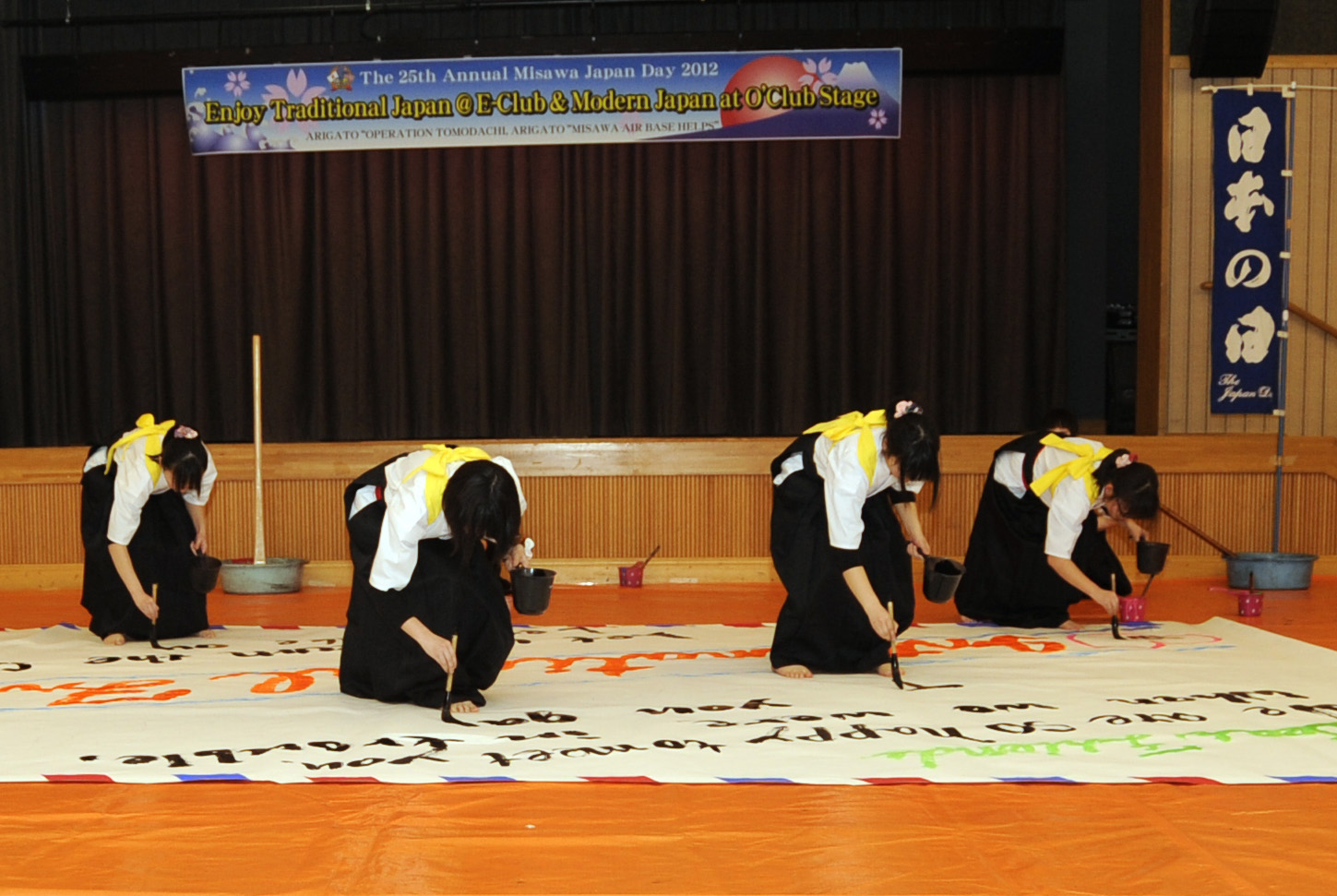 Students from Hachinohe Higashi High School perform a calligraphy dance during the 25th Annual Japan Day at Misawa Air Base, Japan, April 7, 2012. The students performed twice, making a large banner in Japanese and then one in English.